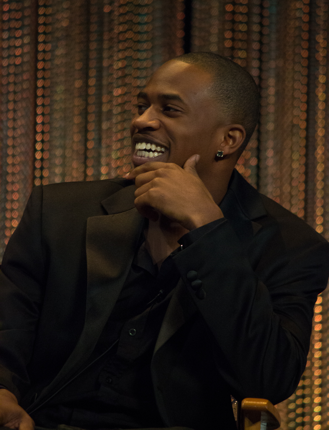 Malcolm David Kelley at New York PaleyFest 2014 for the TV show "Lost"